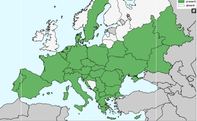 Rasprostranjenje vrste u Evropi (Fauna Europaea)